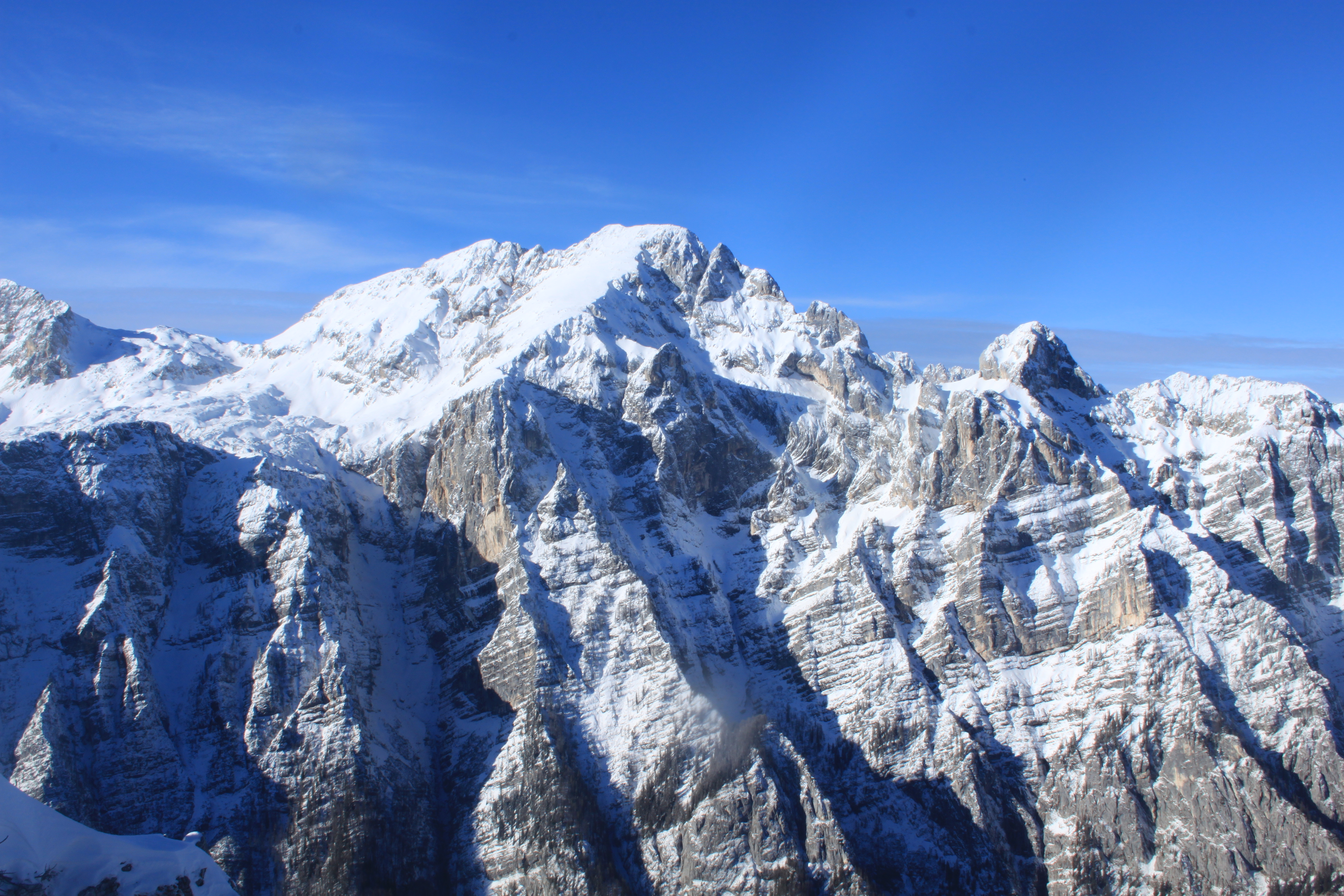 Mount Rjavina (2,532 m) with Luknja peč (to the right), above Krma valley, Slovenia.